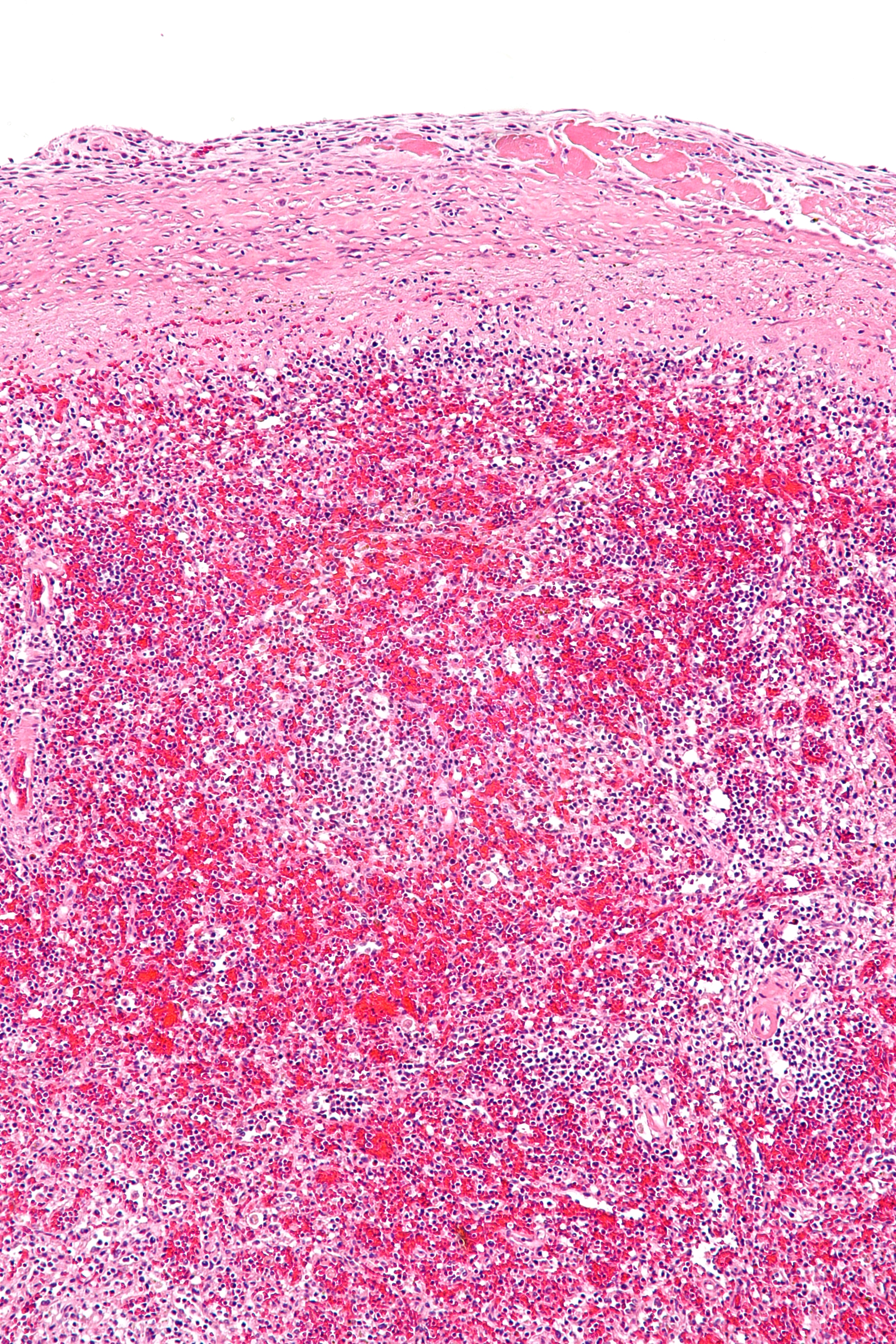 Intermediate magnification micrograph of hyaloserositis of the spleen, also known as sugar-coated spleen. H&E stain. The gross appearance is white; thus, it has the name the sugar-coated spleen. Microscopic features: Serosal inflammation (lymphocytes). Subserosal hyaline material. Related images Low mag. High mag. High mag.